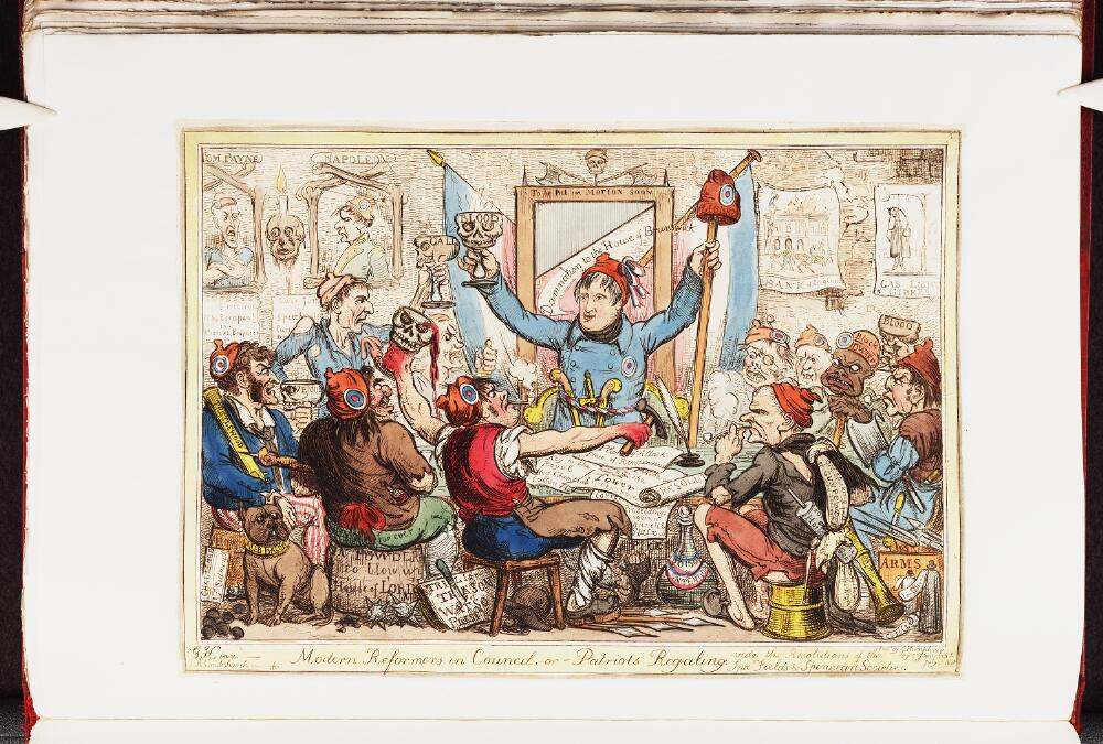 Caricature of Napoleon I. (British political cartoon)